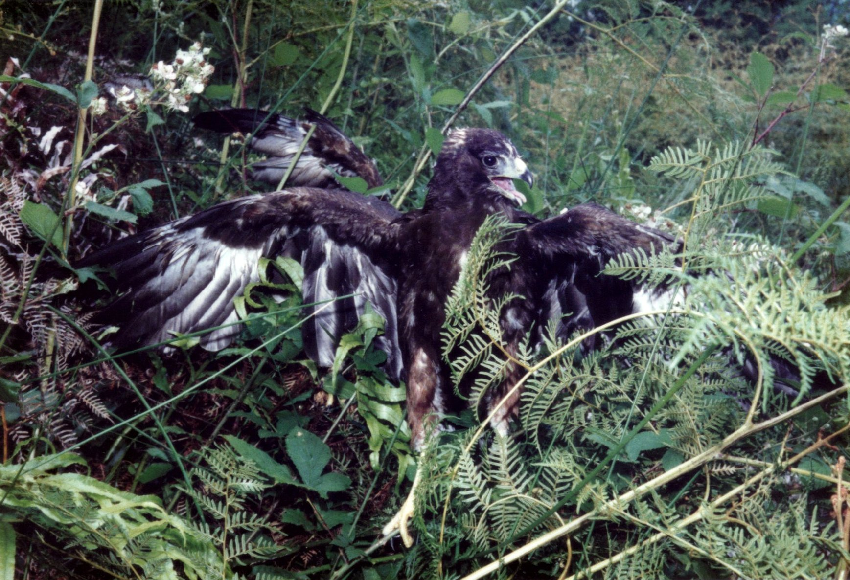 Swamp Harrier juvenile Circus approximans discovered in a nest in a swampy area on a kiwifuit orchard near Waihi, New Zealand, circa 1988. Image scanned from original print, best viewed in large format.